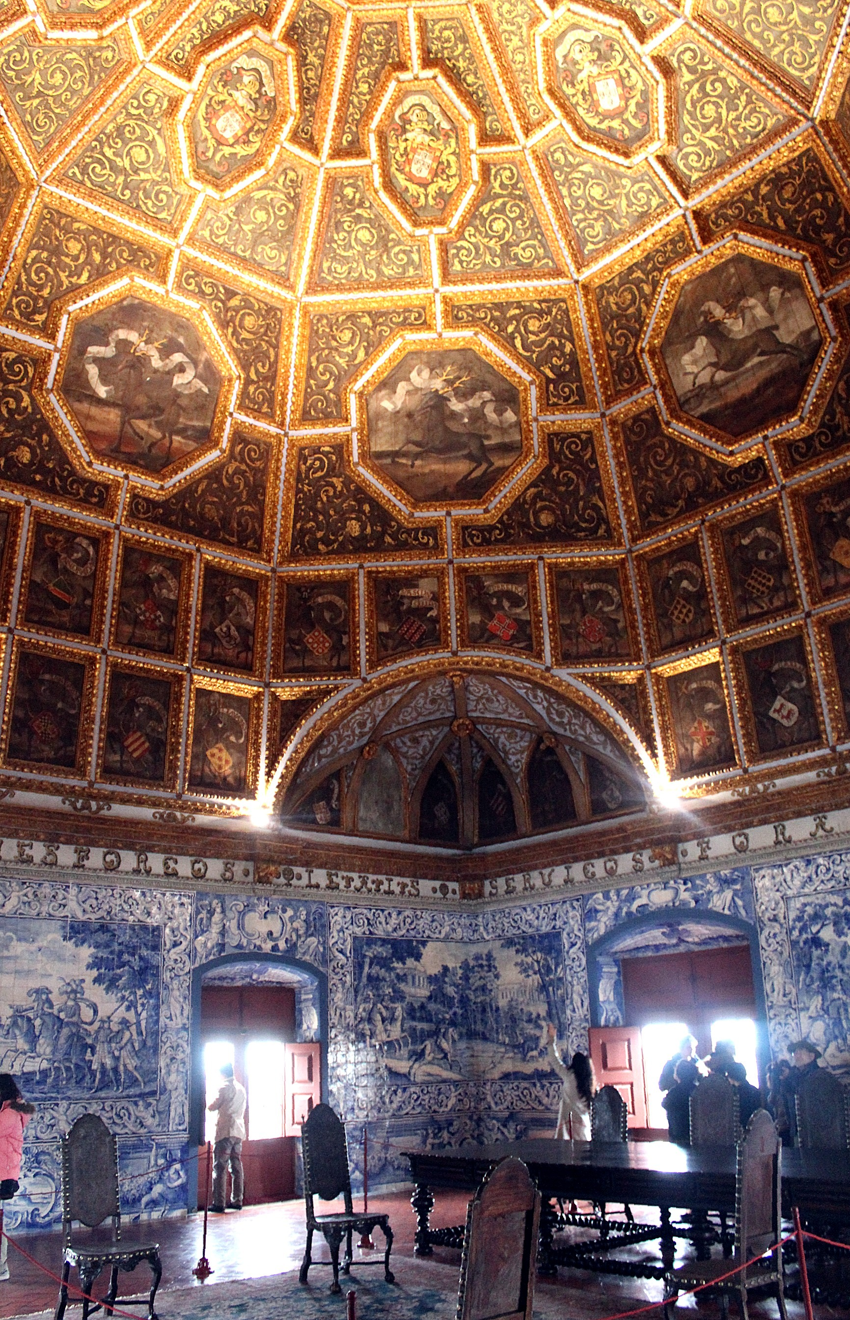 Palácio Nacional de Sintra, the Sala dos Brasões